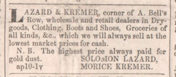 Ad for Lazard and Kremer in the Los Angeles Daily Star 1852-10-30